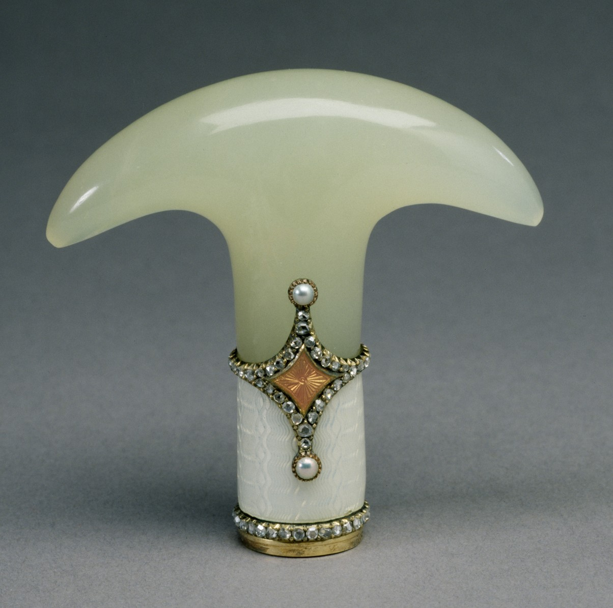 The highly polished, T-shaped, pale jadeite handle is fitted to an elaborate collar of white and apricot guilloché enamel over gold. Rows of rose-cut diamonds with inset half-pearls border the collar and divide the enameled areas. The handle is preserved in its original Fabergé box.